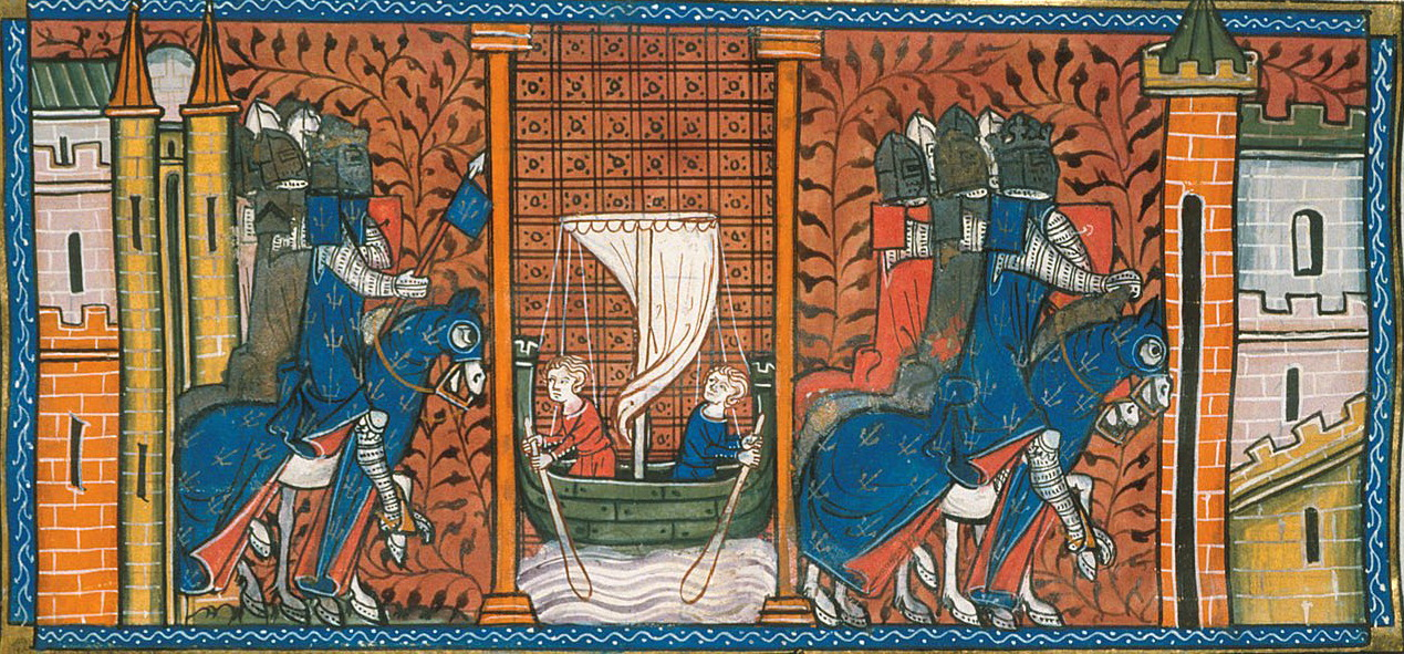 Seventh Crusade, May 1250: Saint Louis leave Damiette and voyage to Acre (British Library, Royal 16 G VI f. 414)